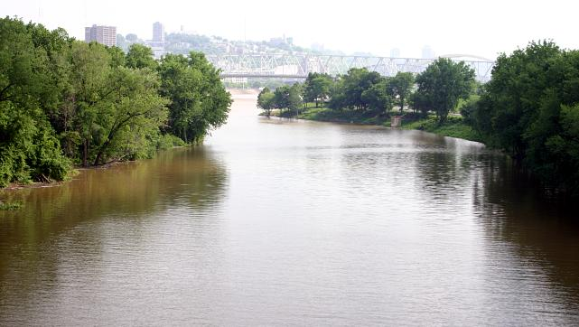 Mouth of the Licking River, Covington-Newport, Kentucky, 2004, by Rick Dikeman